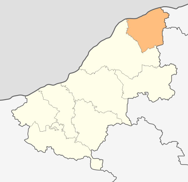 Map of Slivo pole municipality, Ruse Province